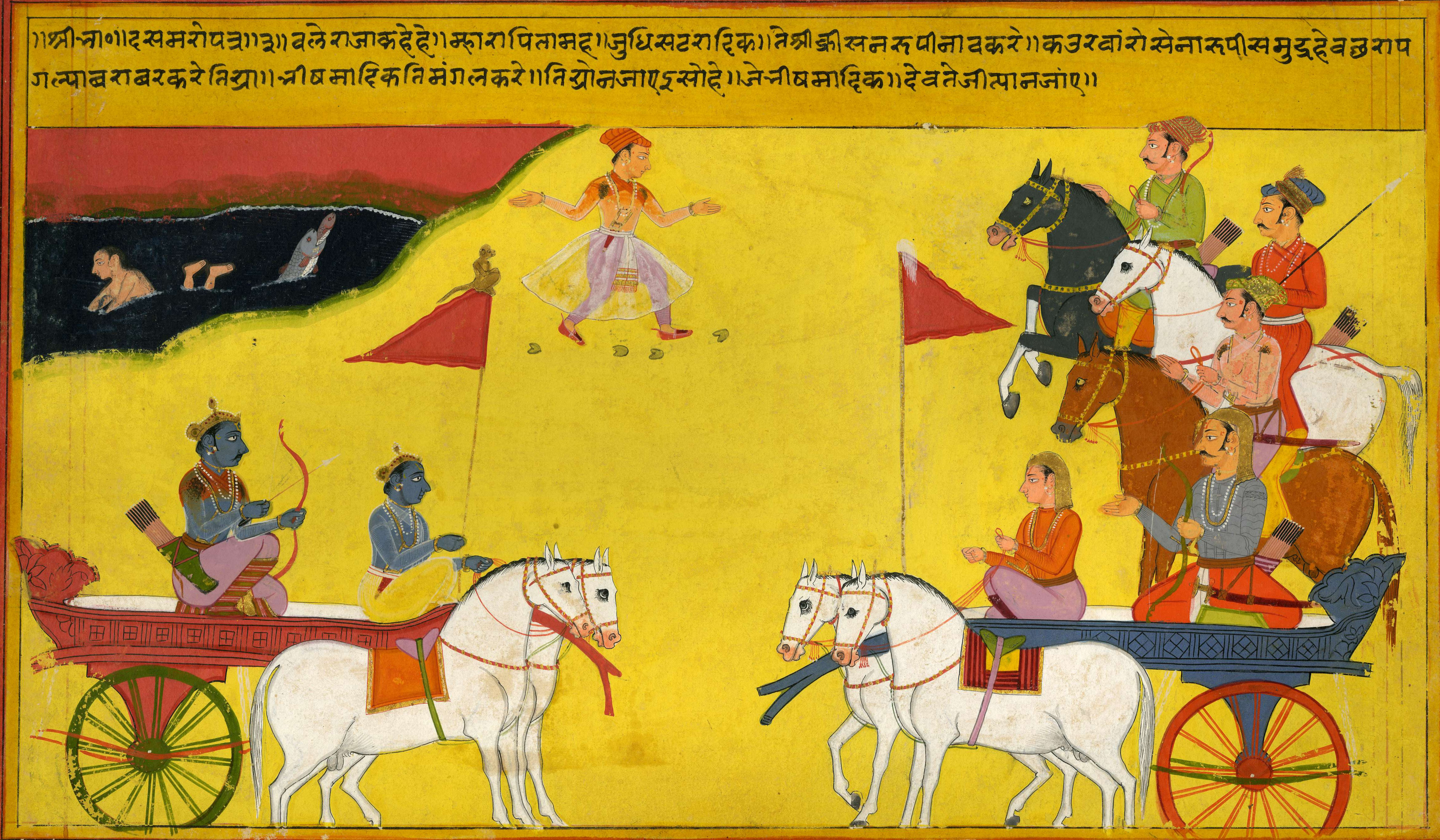 An illustration from the Bhagavata Purana.